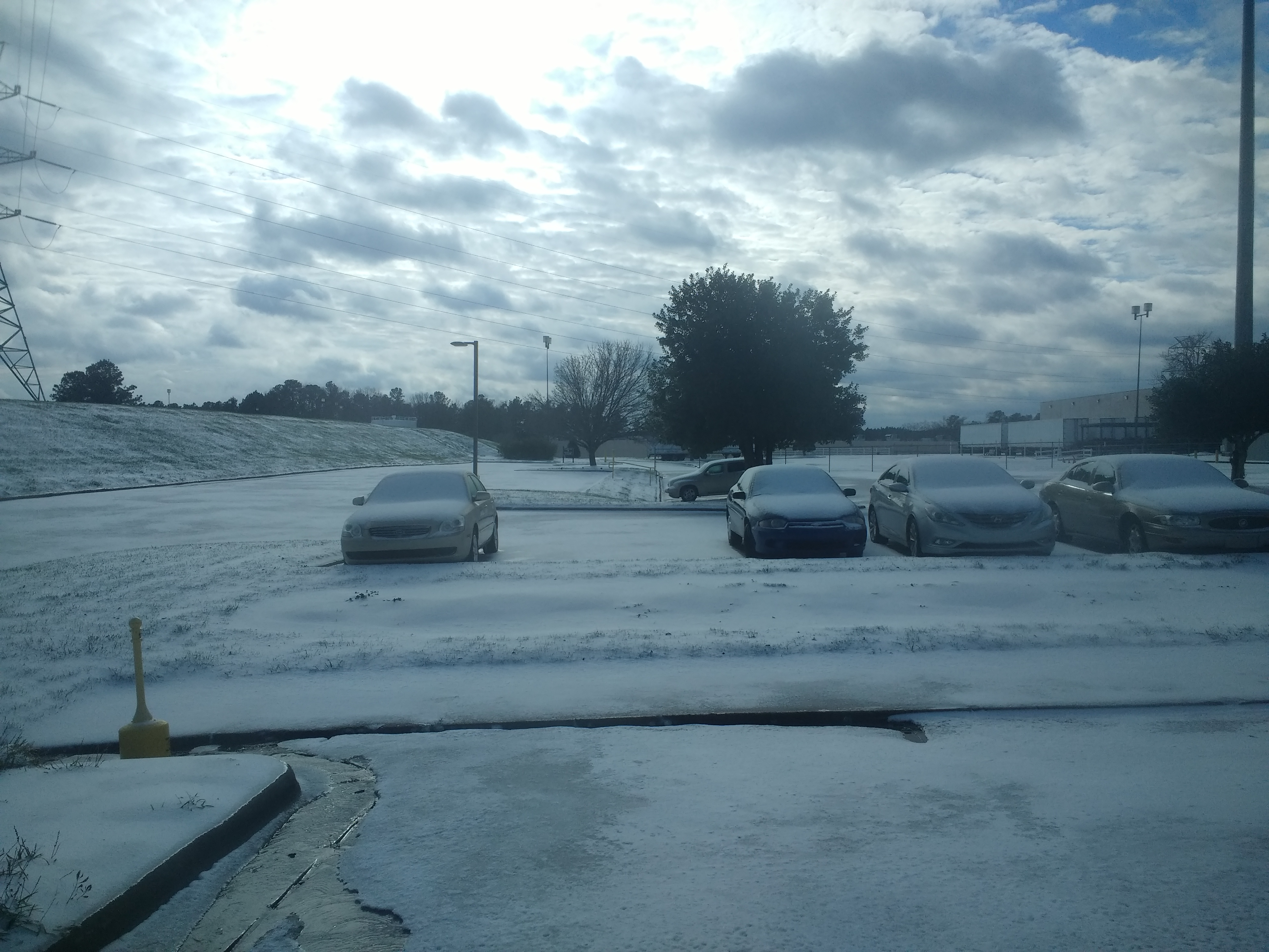 Snow in central North Carolina brought by Winter Storm Helena.